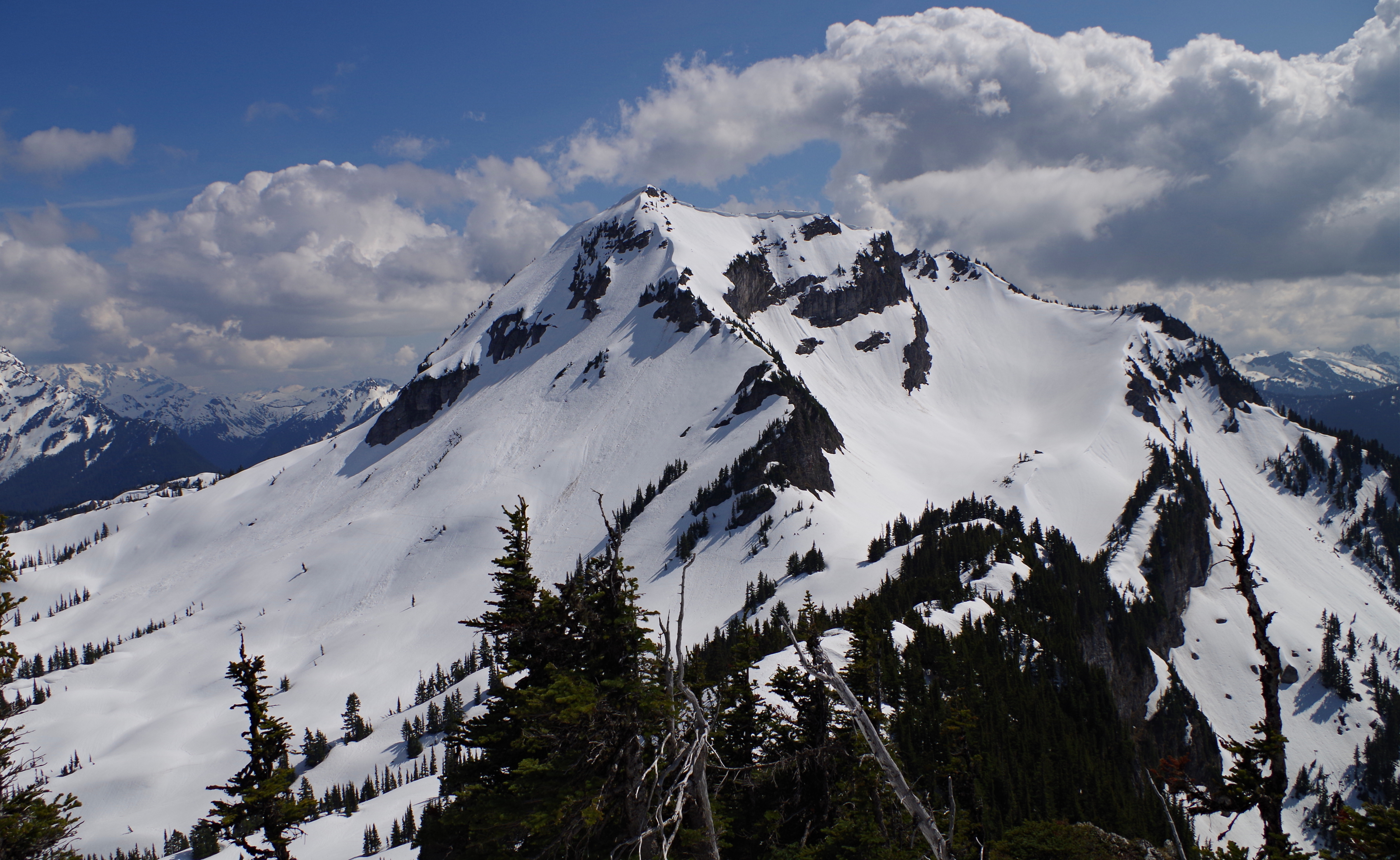 Mount McGuire in spring